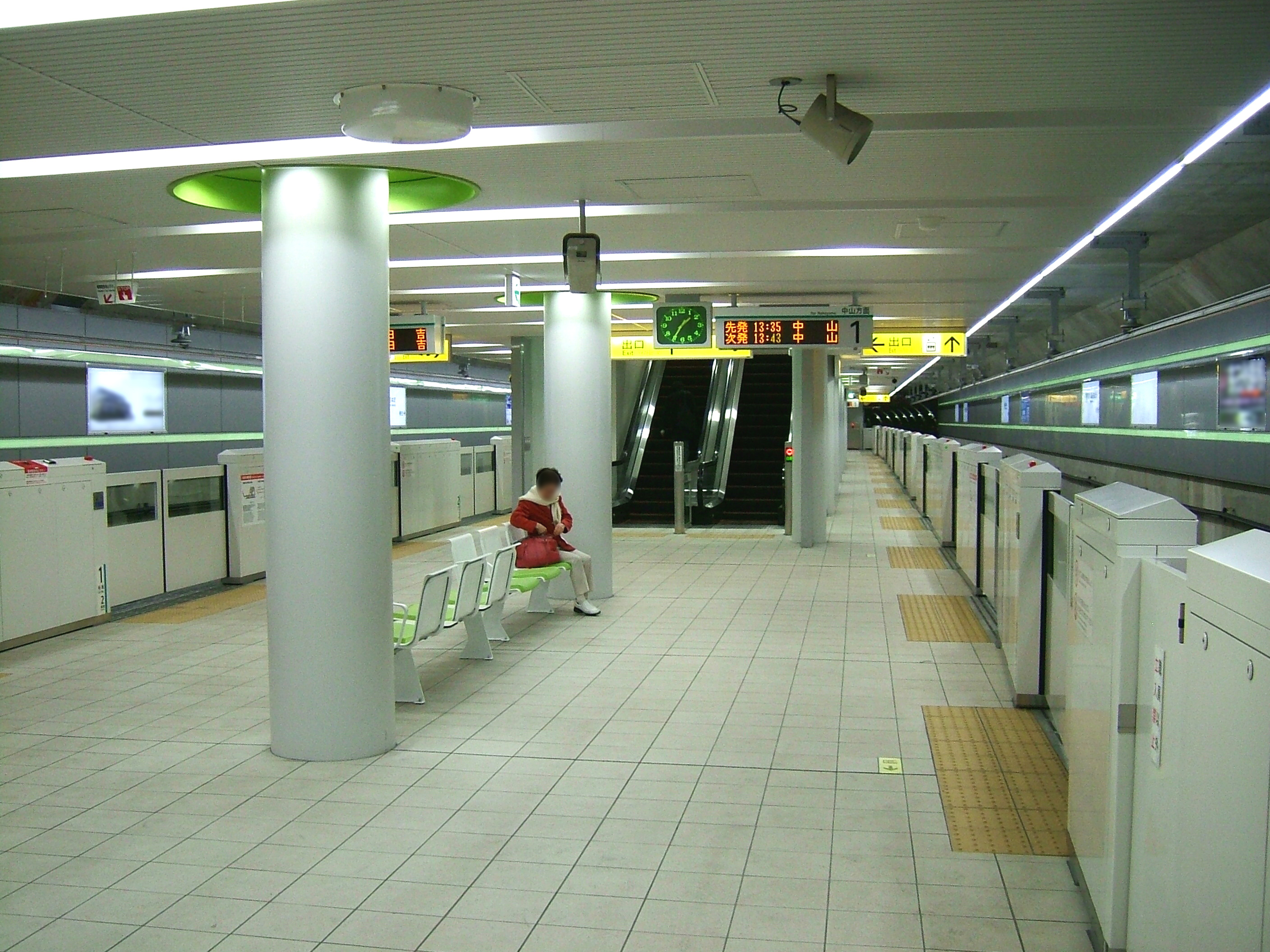 Hiyoshi-Honchō Station platform (Yokohama Municipal Subway Green Line)